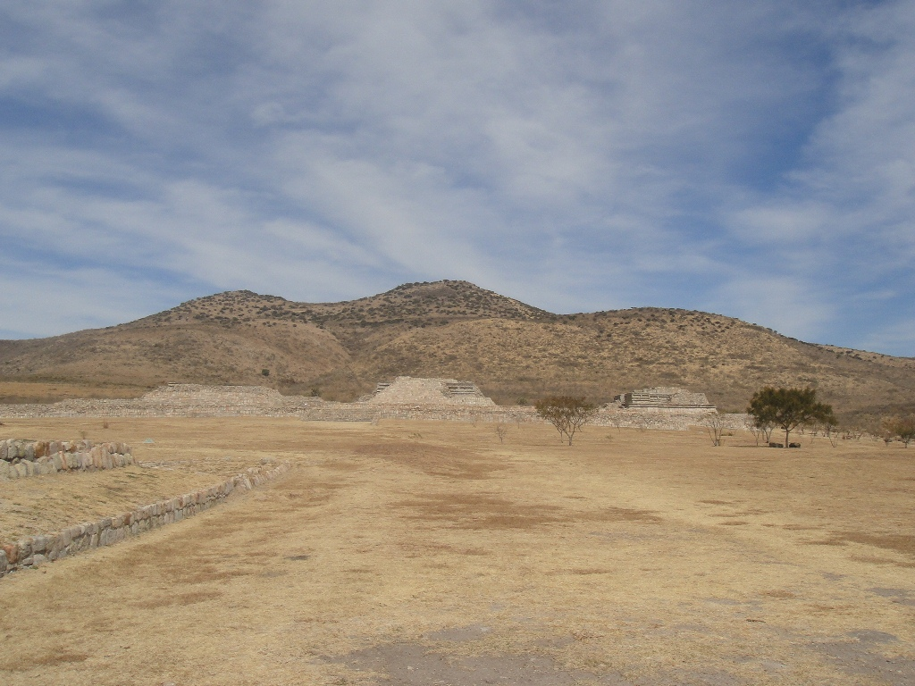 Template:Plazuelas against hills